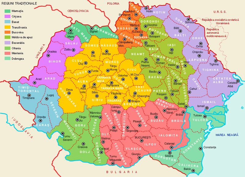 Romania's counties 1935